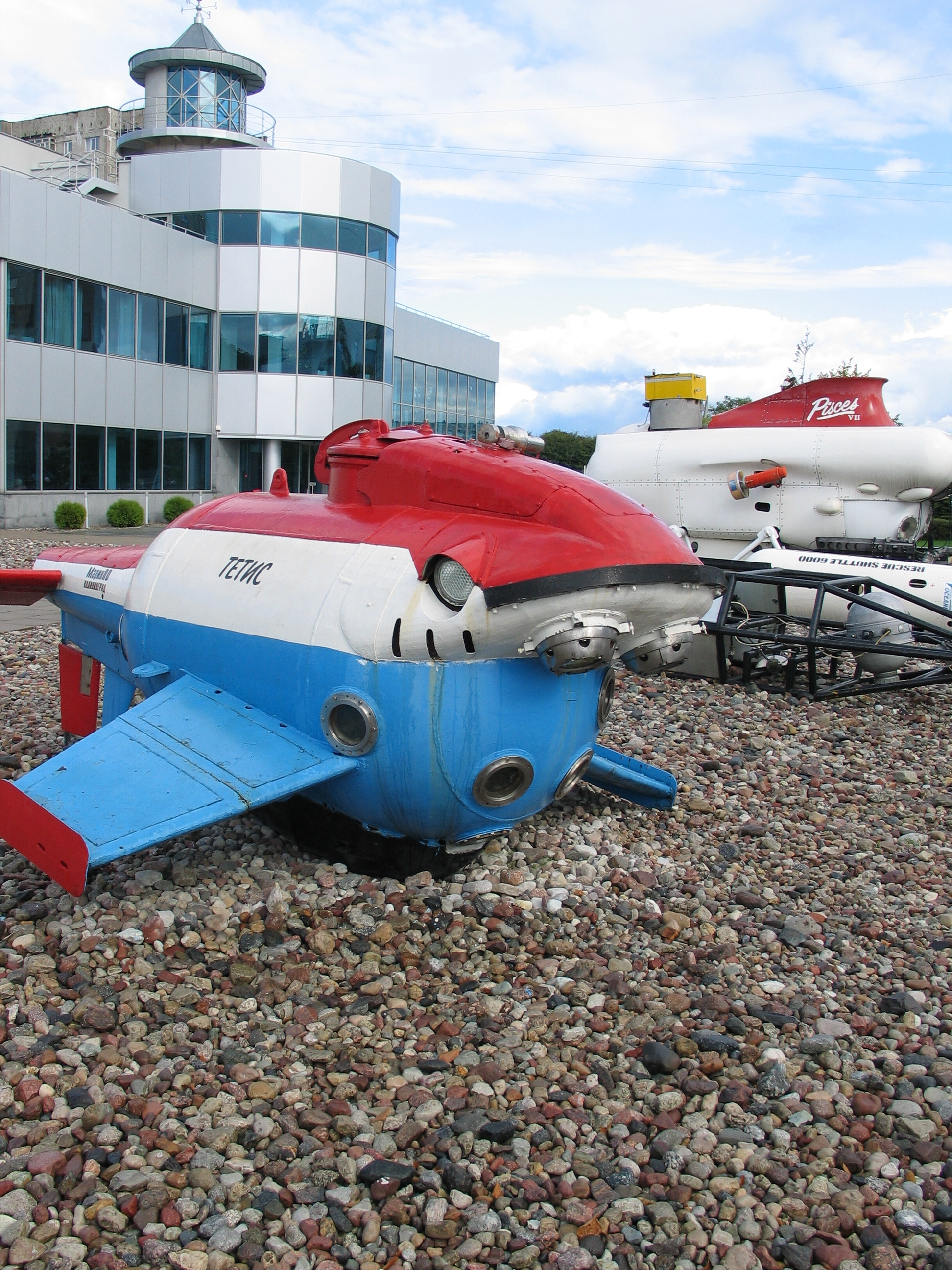 Museum of the World ocean, Kaliningrad, Russia. Museum building and the outdoor exposition.